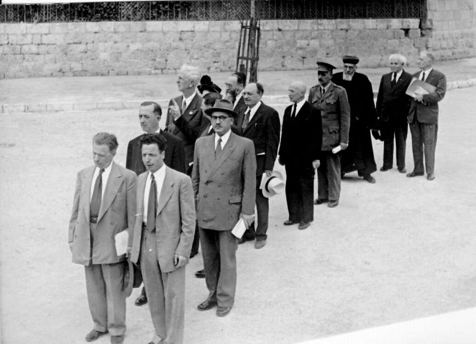 Yishuv leaders with the American diplomat, James McDonald, Jerusalem. (Apparently at the opening of the medical school). First on the left is Berl Locker, second from right is Moshe Shapira, James McDonald, Zalman Shazar, Rabbi Simcha Asaf, Rose Halperin, Chief Rabbi Ben-Zion Meir Hai Uziel and David Ben Gurion.